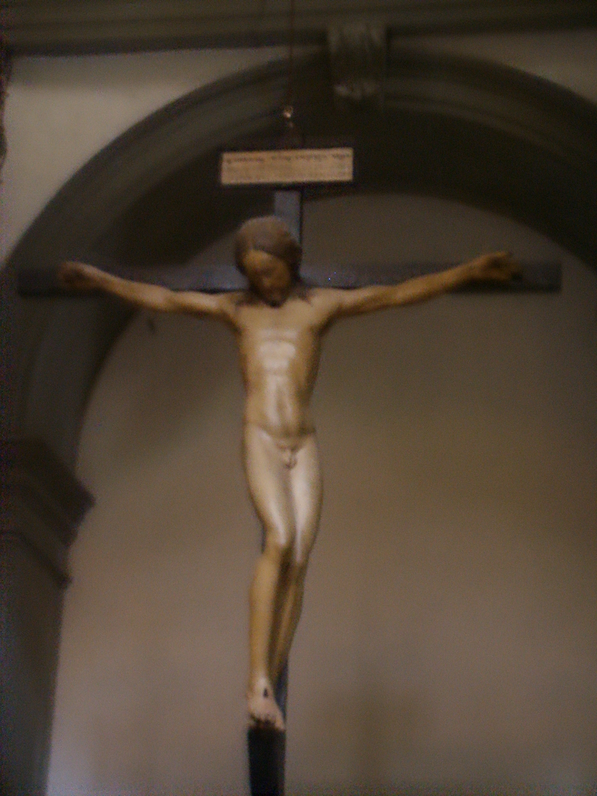 The Crucifix sculpted by Michelangelo, in Santo Spirito church, in Florence, Italy.